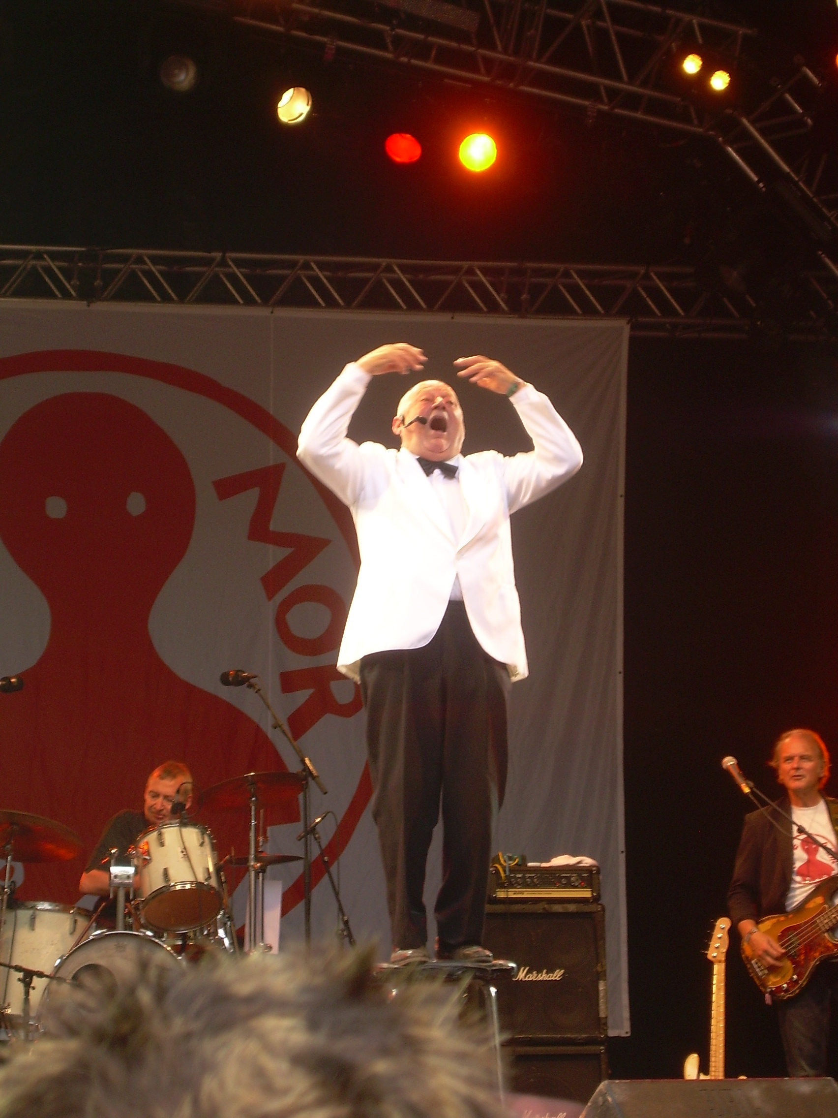 Photo of danish musician Troels Trier taken at Skanderborg Festival 2007, Denmark